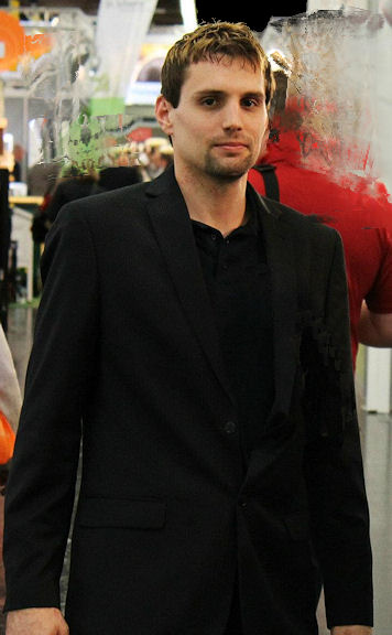 Picture from Michael Wolfinger 2012